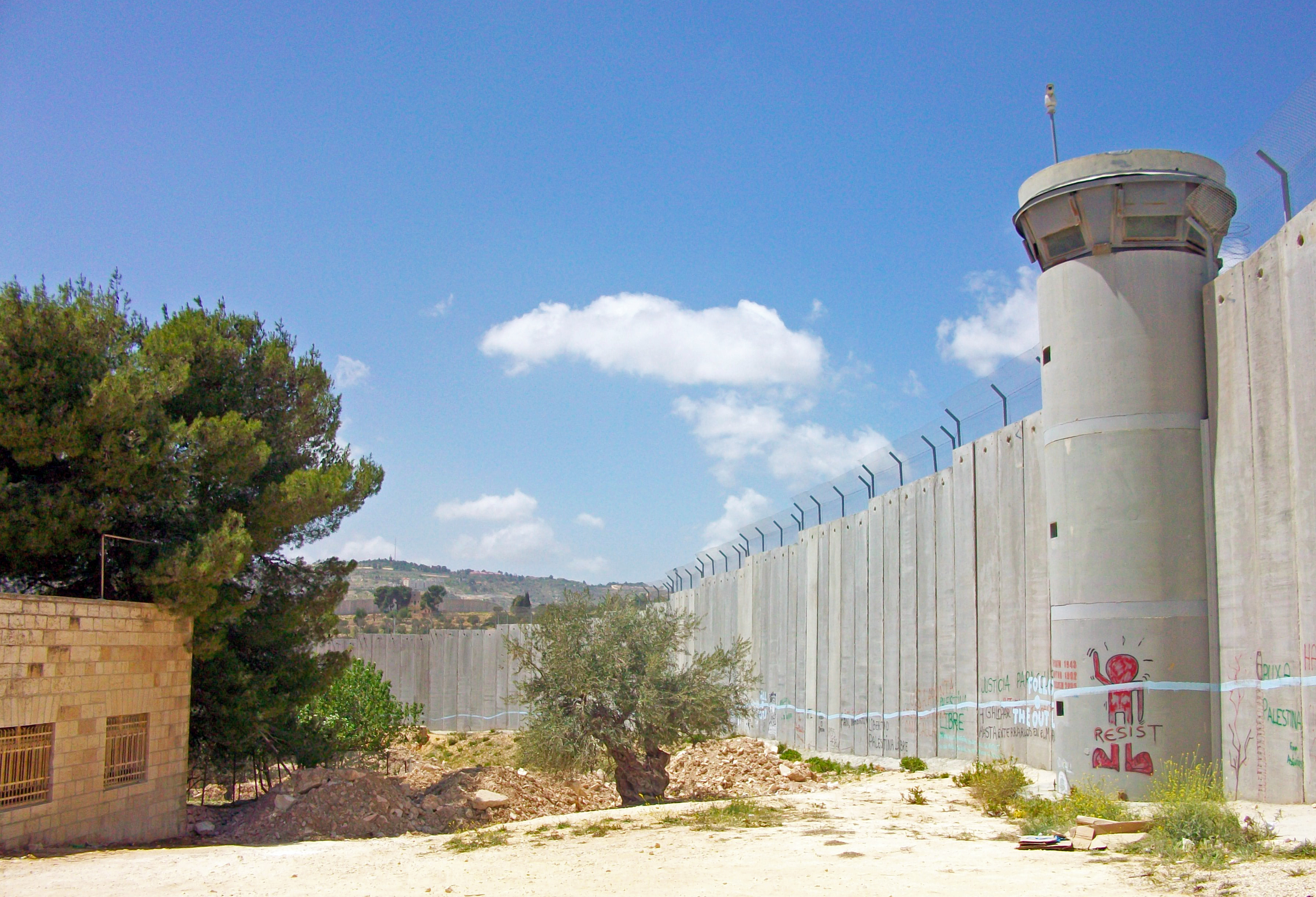 A bend in a section of the Israeli separation barrier at Bethlehem.